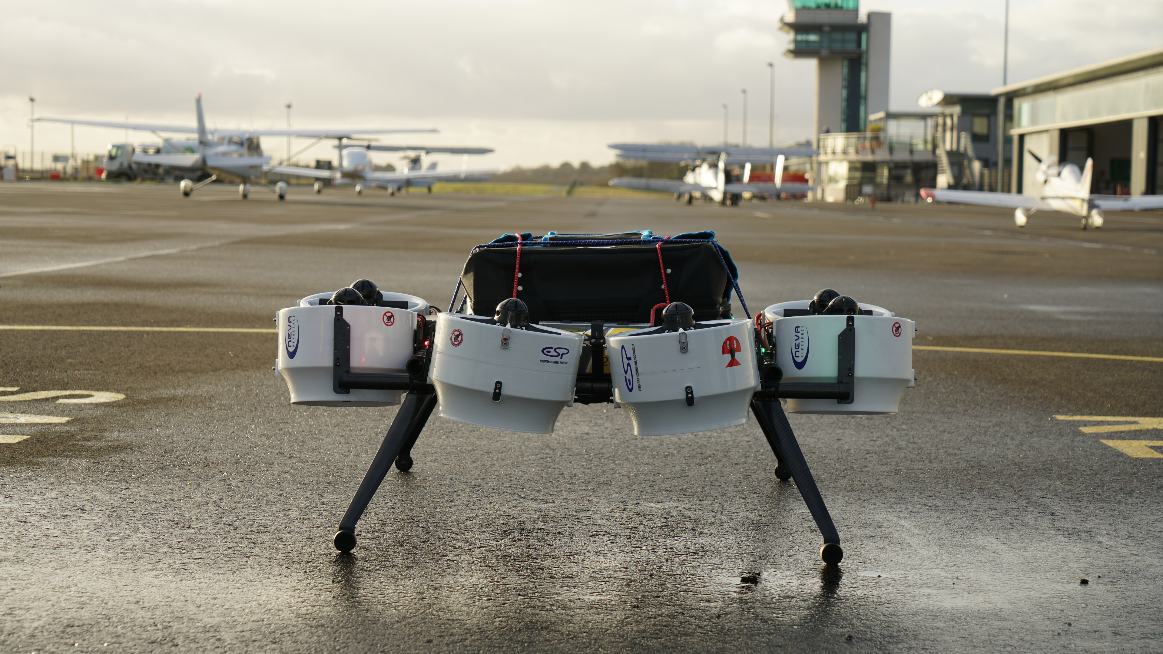 Wohler is an UAV designed by NevaAerospace. It is based on the concept of Distributed Electric Propulsion and uses 8 electric ducted fans Athena